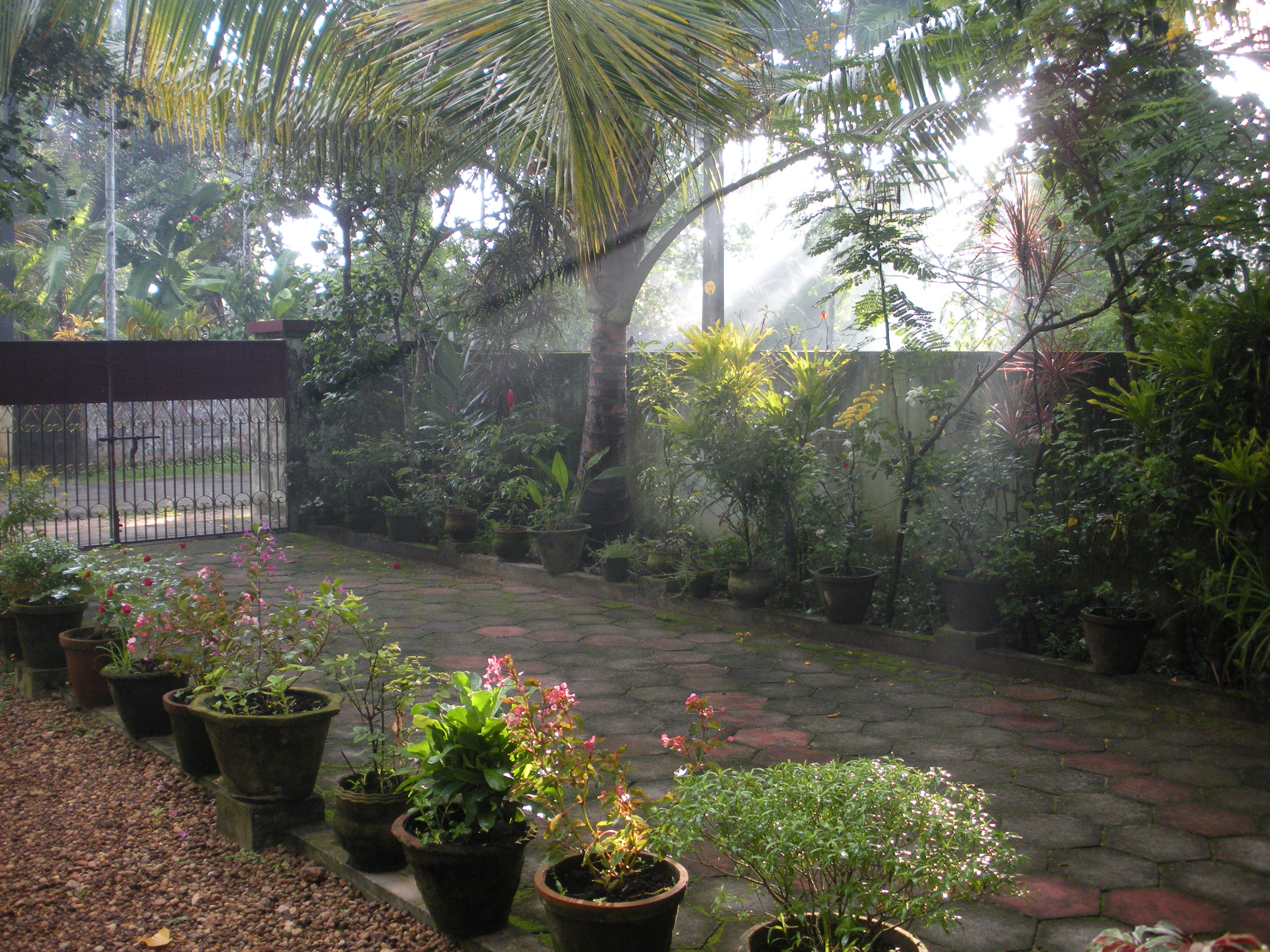 Path of light visible due to scattering from the mist.